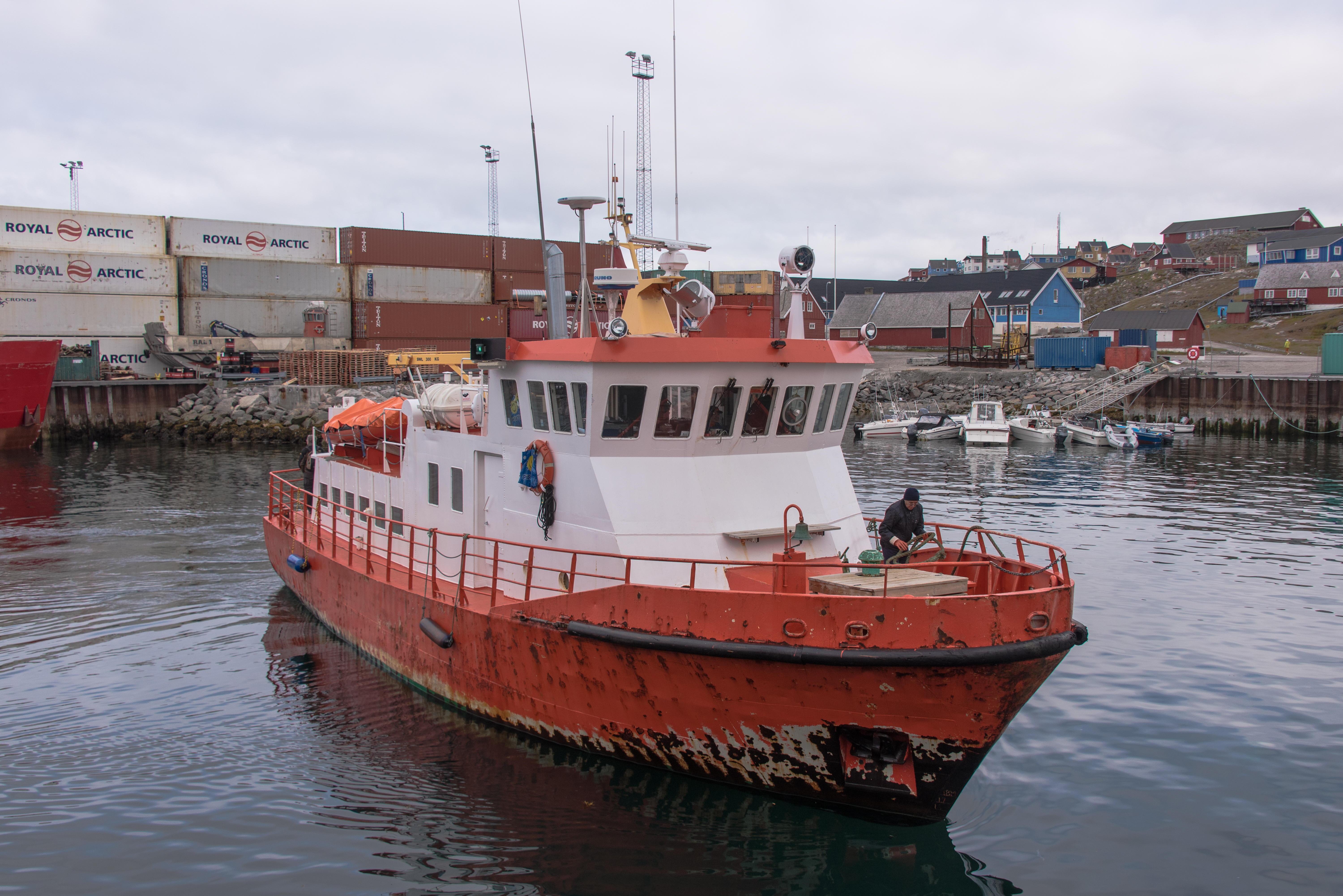 Diskoline community transportation ship, ALEQA ITTUK - MMSI 331011000, in Aasiaat Harbor, Greenland, on September 3, 2017.